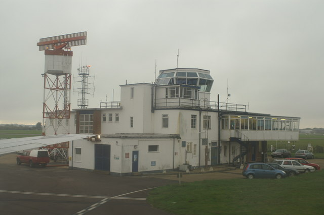 Bournemouth Airport Control Tower